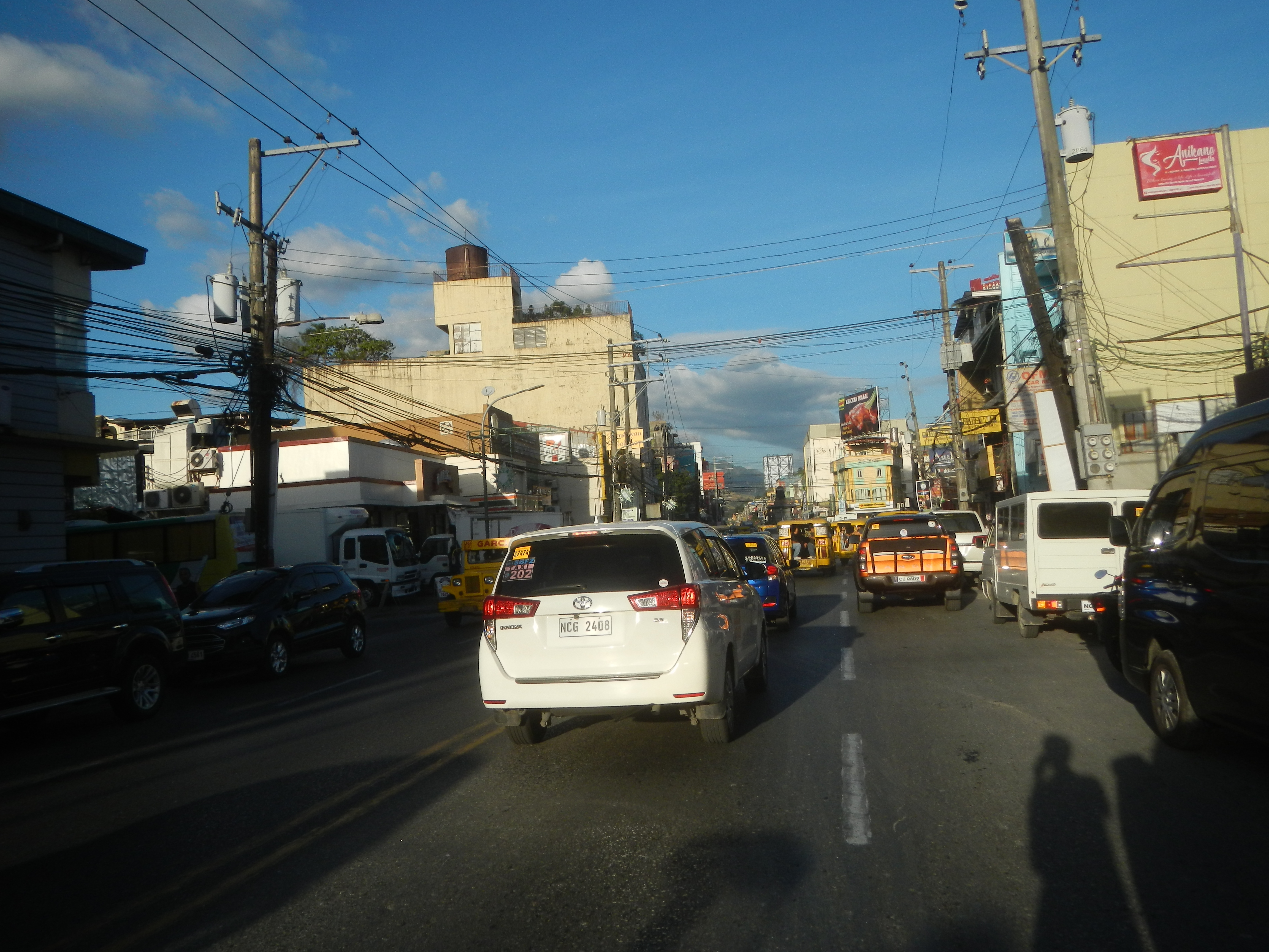 AMA Computer College - Olongapo Campus AMA Computer University CELTECH College (East, Bajac-Bajac, Olongapo City) Olongapo City Proper (Rizal Avenue, East & West, Bajac-Bajac) Barangays East Bajac-bajac 14°50'29"N 120°17'28"E West Bajac-bajac, 14°50'36"N 120°17'22"E Olongapo City from and along Jose Abad Santos Avenue or Olongapo–Gapan Road Philippine highway network (Note: Judge Florentino Floro, the owner, to repeat, Donor Florentino Floro of all these photos hereby donate gratuitously, freely and unconditionally Judge Floro all these photos to and for Wikimedia Commons, exclusively, for public use of the public domain, and again without any condition whatsoever).